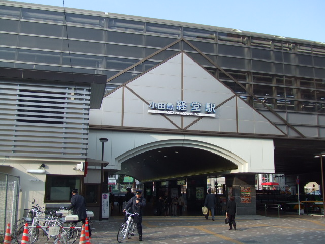 South entrance of Kyodo Station on the Odakyu Odawara Line in Setagaya, Tokyo, Japan